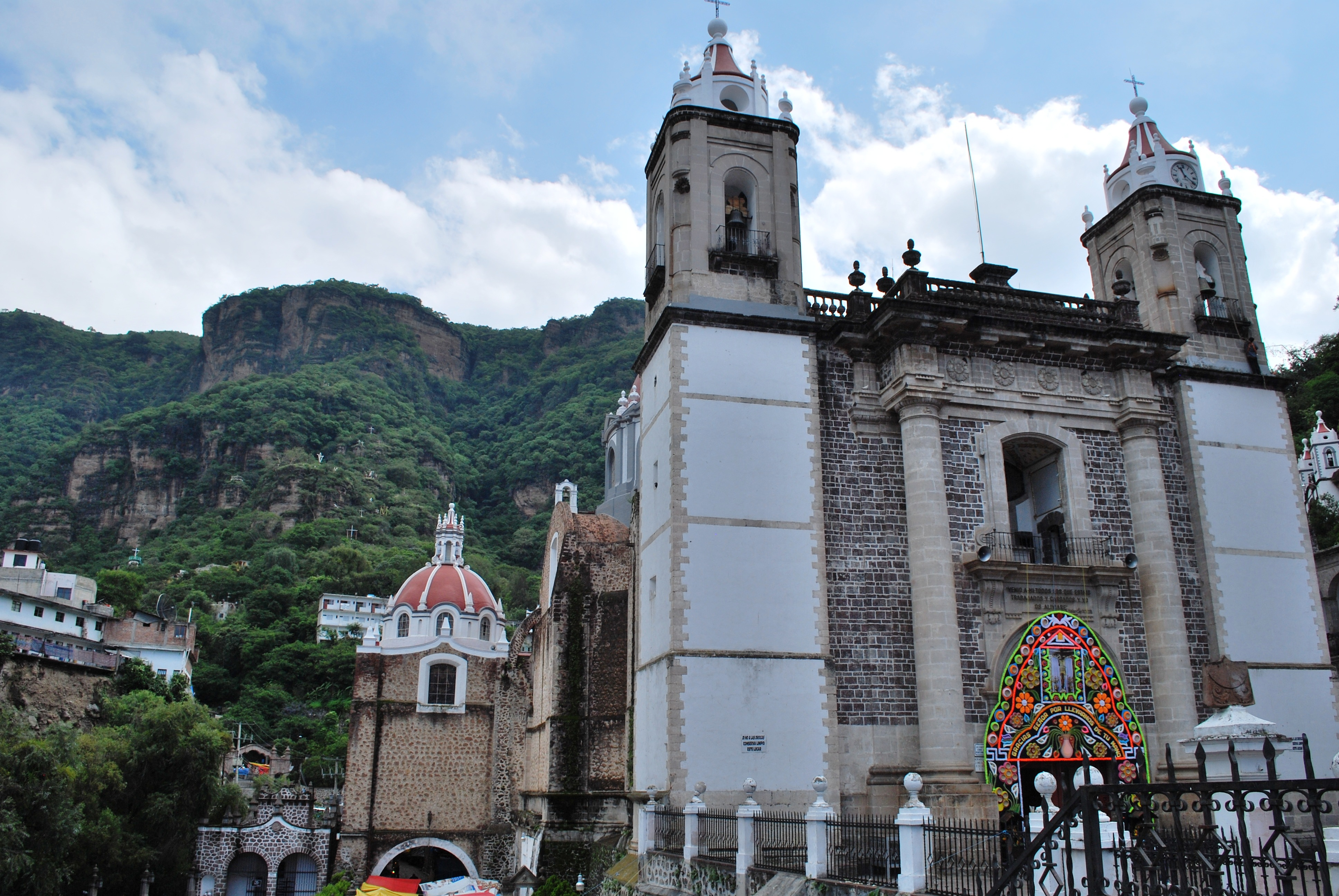 View of the church of the sanctuary of Chalma with hills in the background. In Chalma, Malinalco, Mexico State